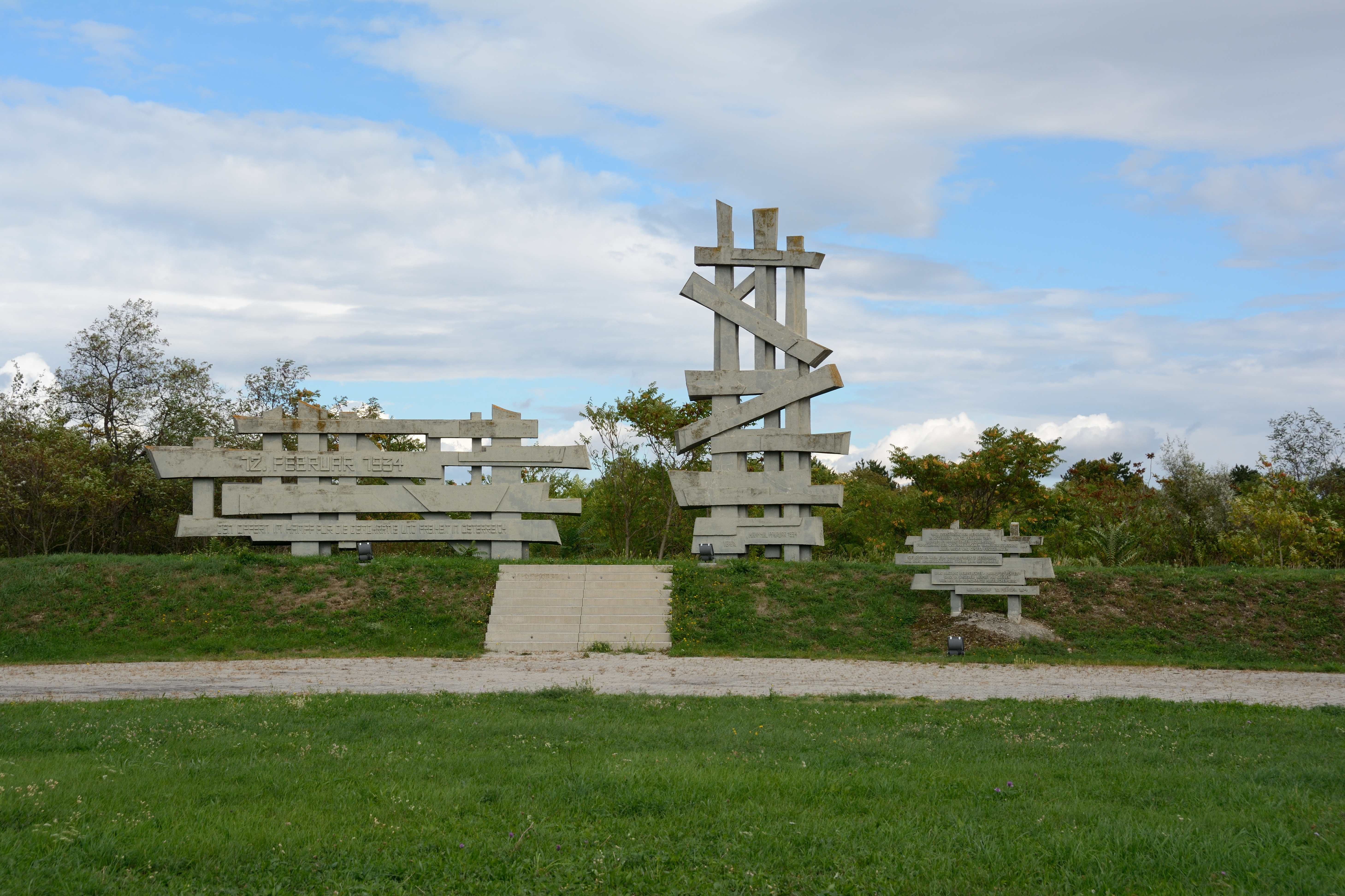 Memorial of former penal camp Wöllersdorf, Lower Austria